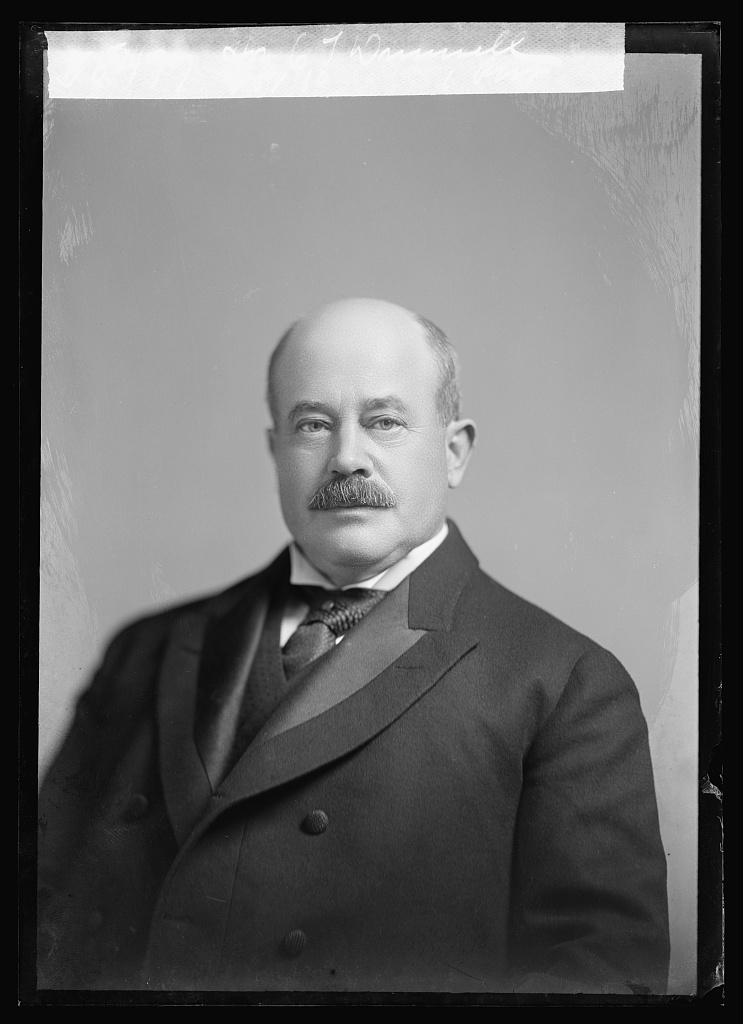 Charles T. Dunwell taken by C. M. Bell Studio